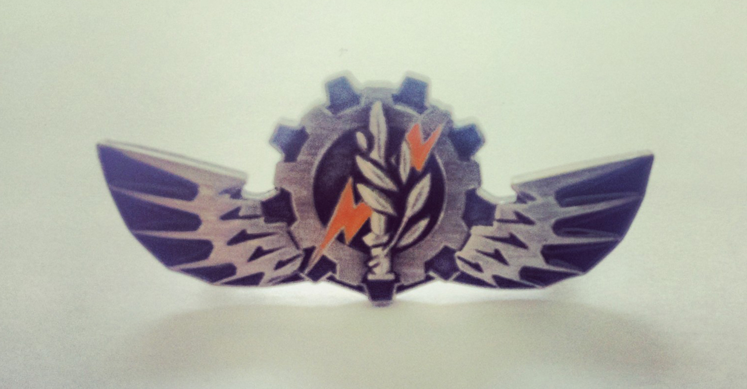 סיכת ברקים הנינתנת למסיימי התכנית